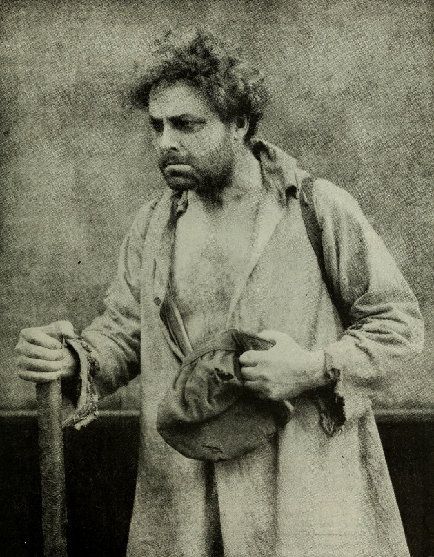 William Farnum as Jean Valjean in the American film Les Misérables (1917).